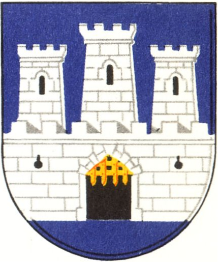 Coat of arms of the city of Cluj (present day Romania), approved 1377 by King Louis I the Great